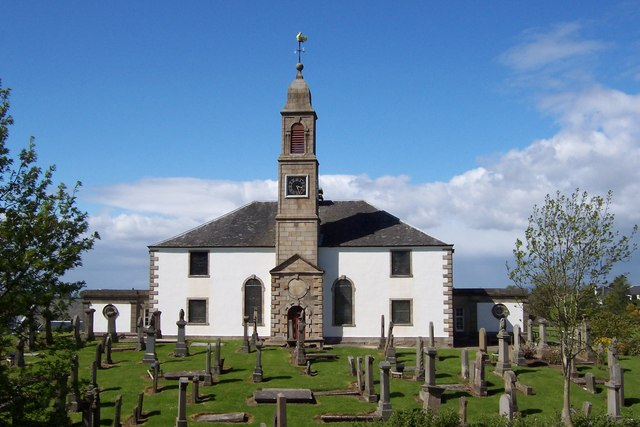 Mearns Parish Kirk